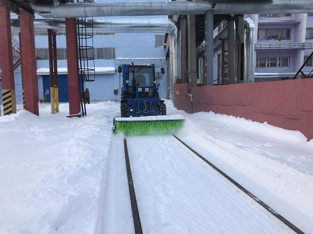 подметальная универсальная машина для автодорог и рельсового пути